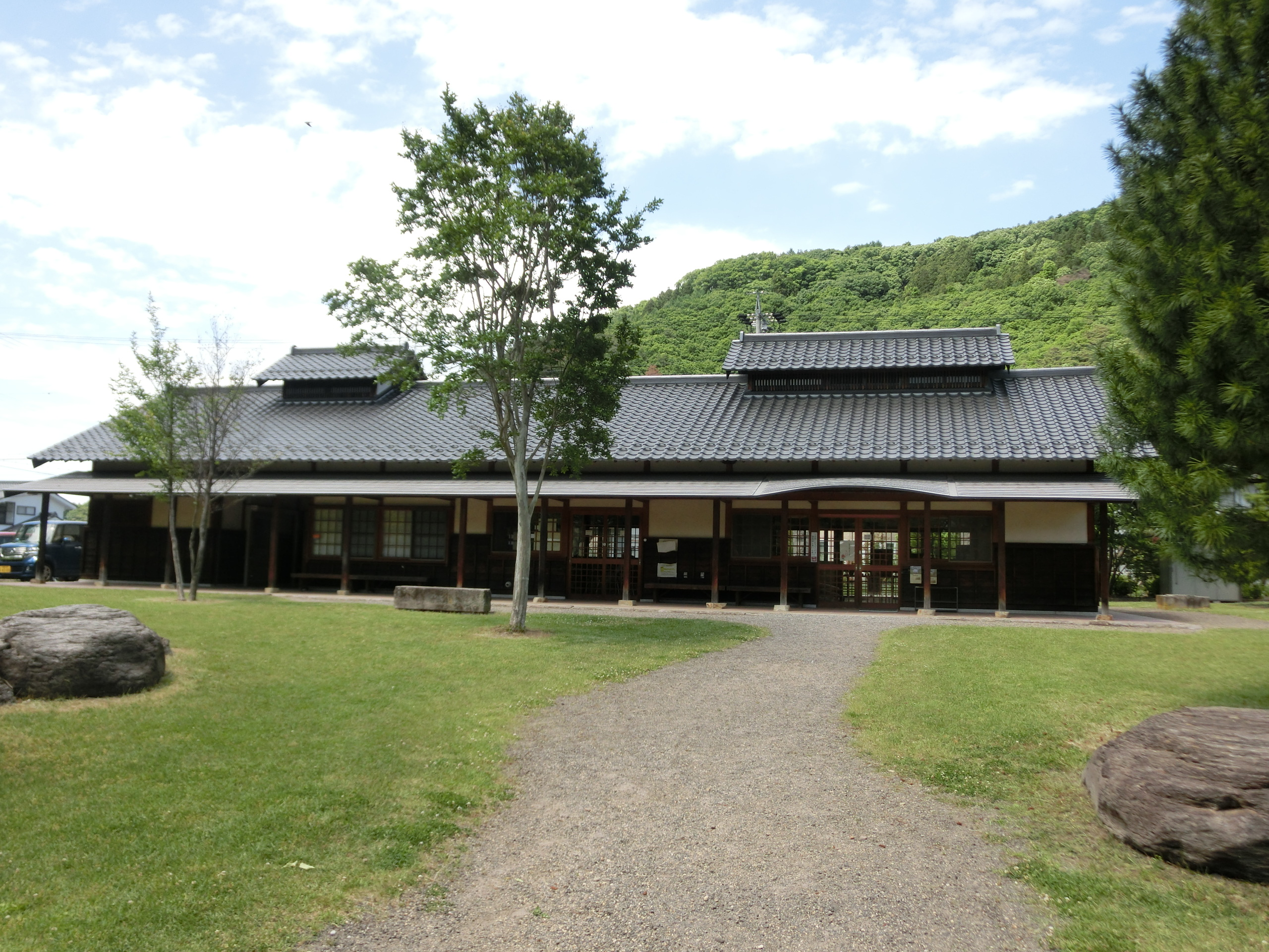 Goryokaku Deai no Yakata